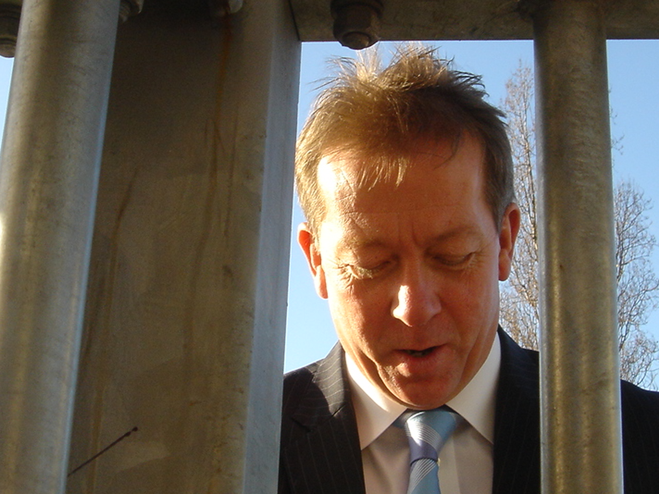 English football manager and former player Alan Curbishley.